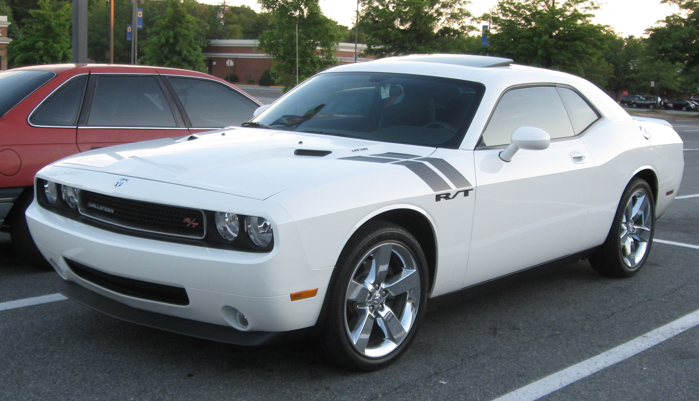 2009 Dodge Challenger R/T photographed in Fort Washington, Maryland, USA.